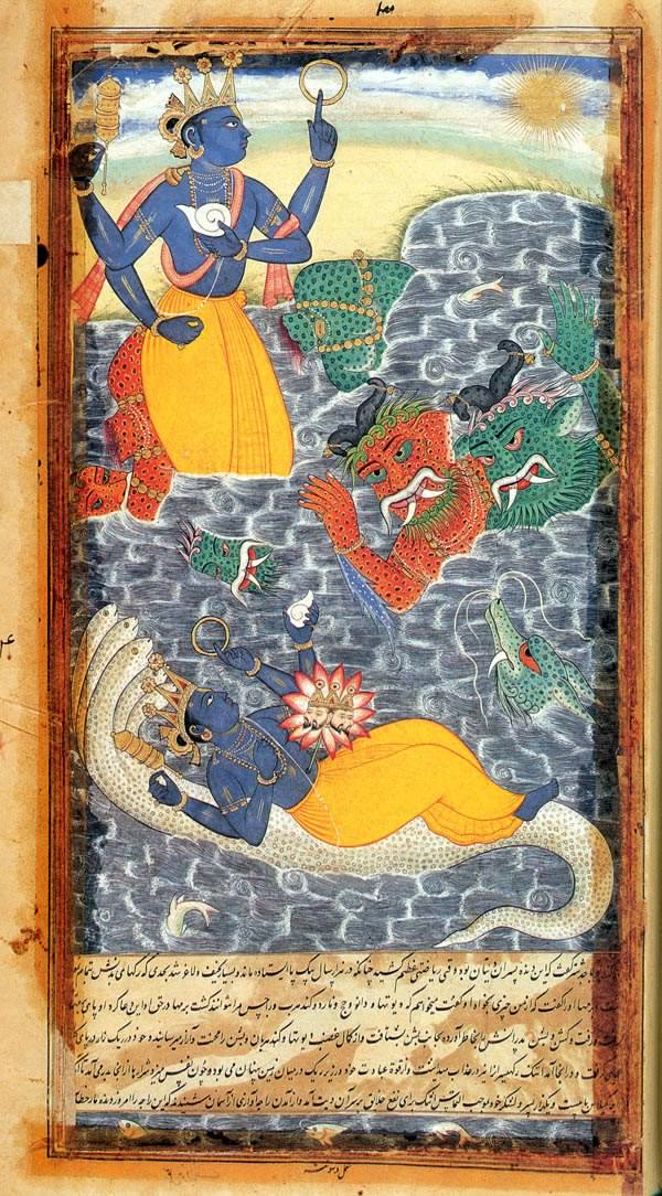 From aranya or vana parwa